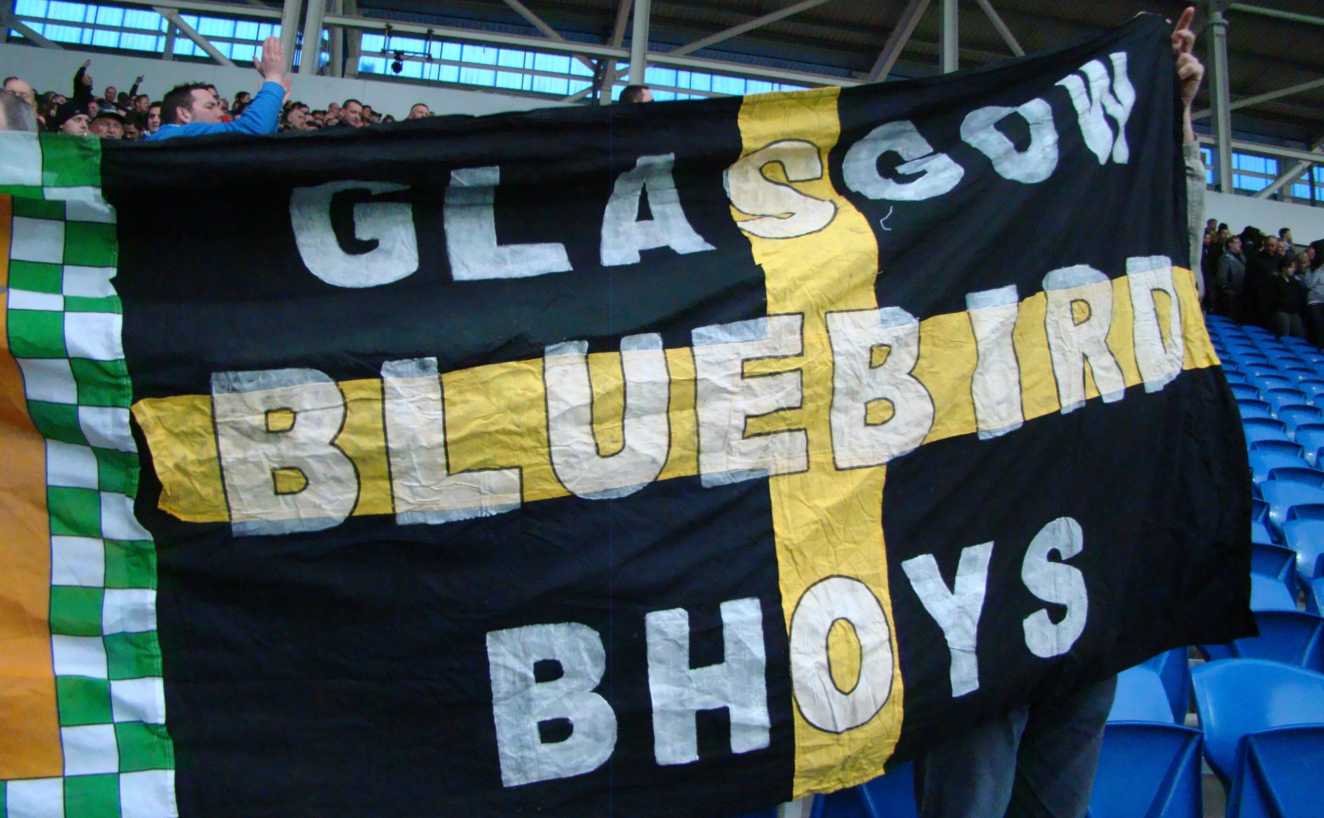 03/04/10 Cardiff V Swansea, Chamionship, Cardiff City Stadium, Cardiff, Wales